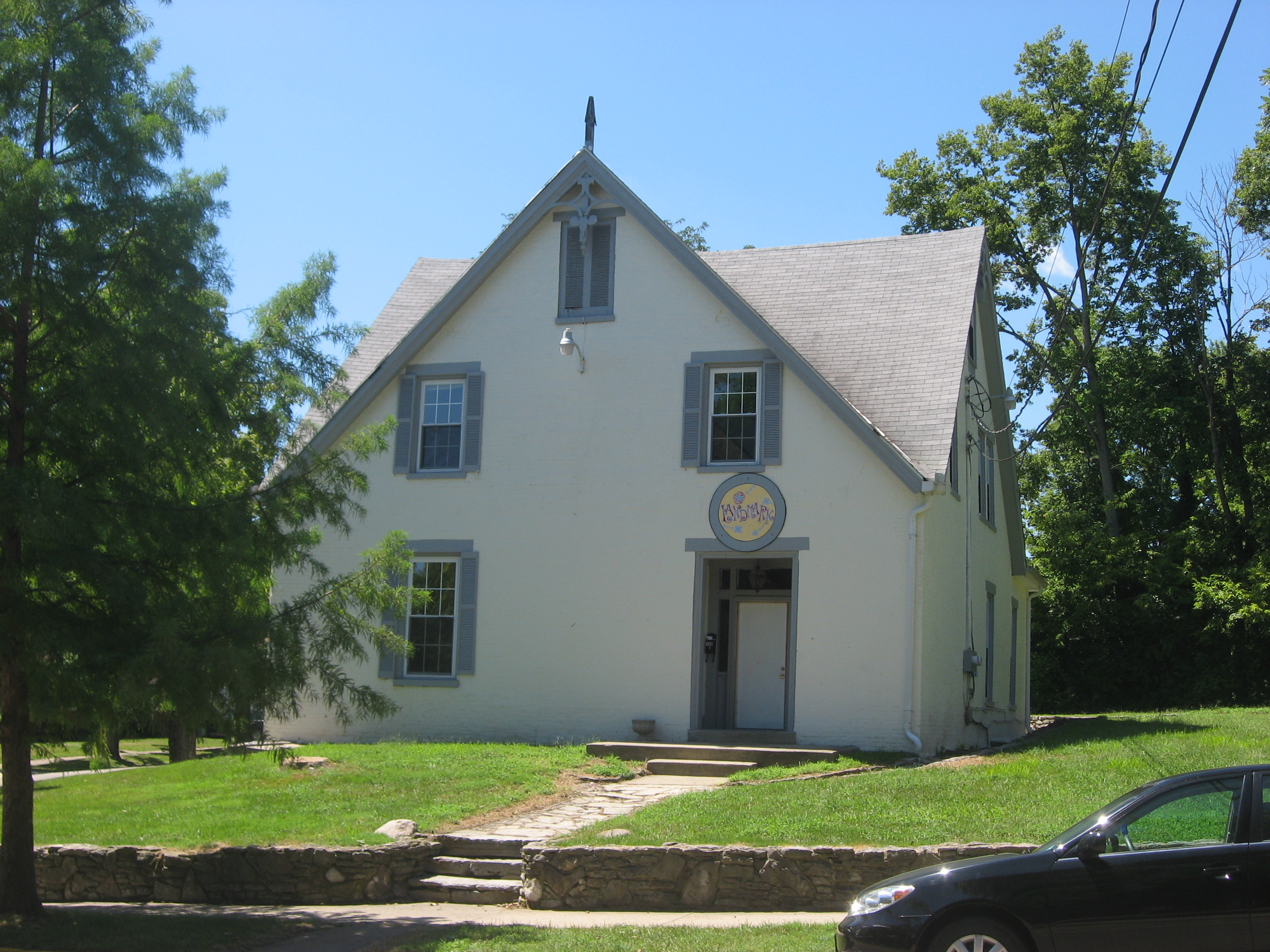 Front of the Elias Kumler House, located at 120 S. Main Street (State Route 732) in Oxford, Ohio, United States. Built in 1856, it is listed on the National Register of Historic Places.